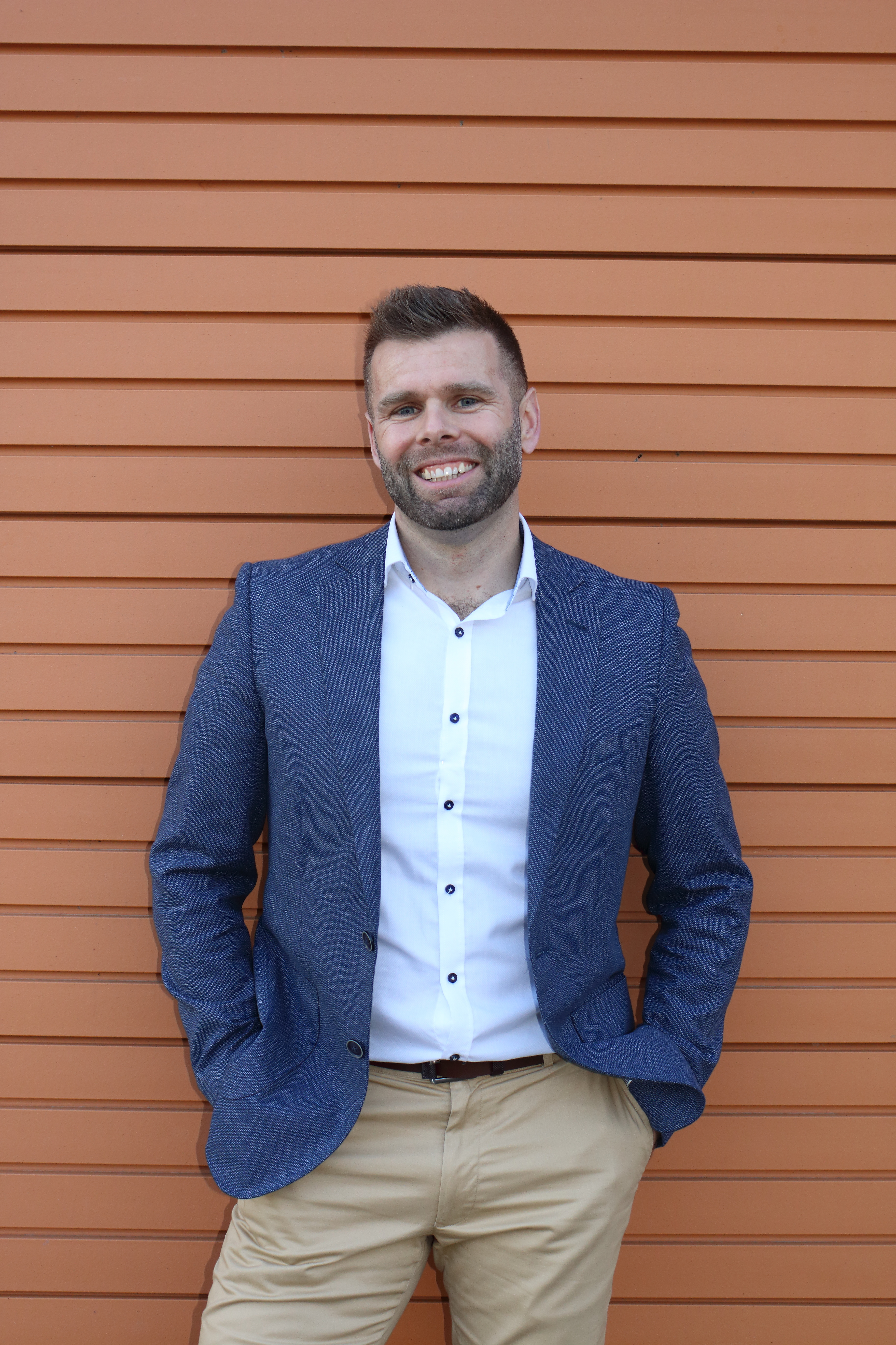 Adventurer and International Speaker Richard Bowles